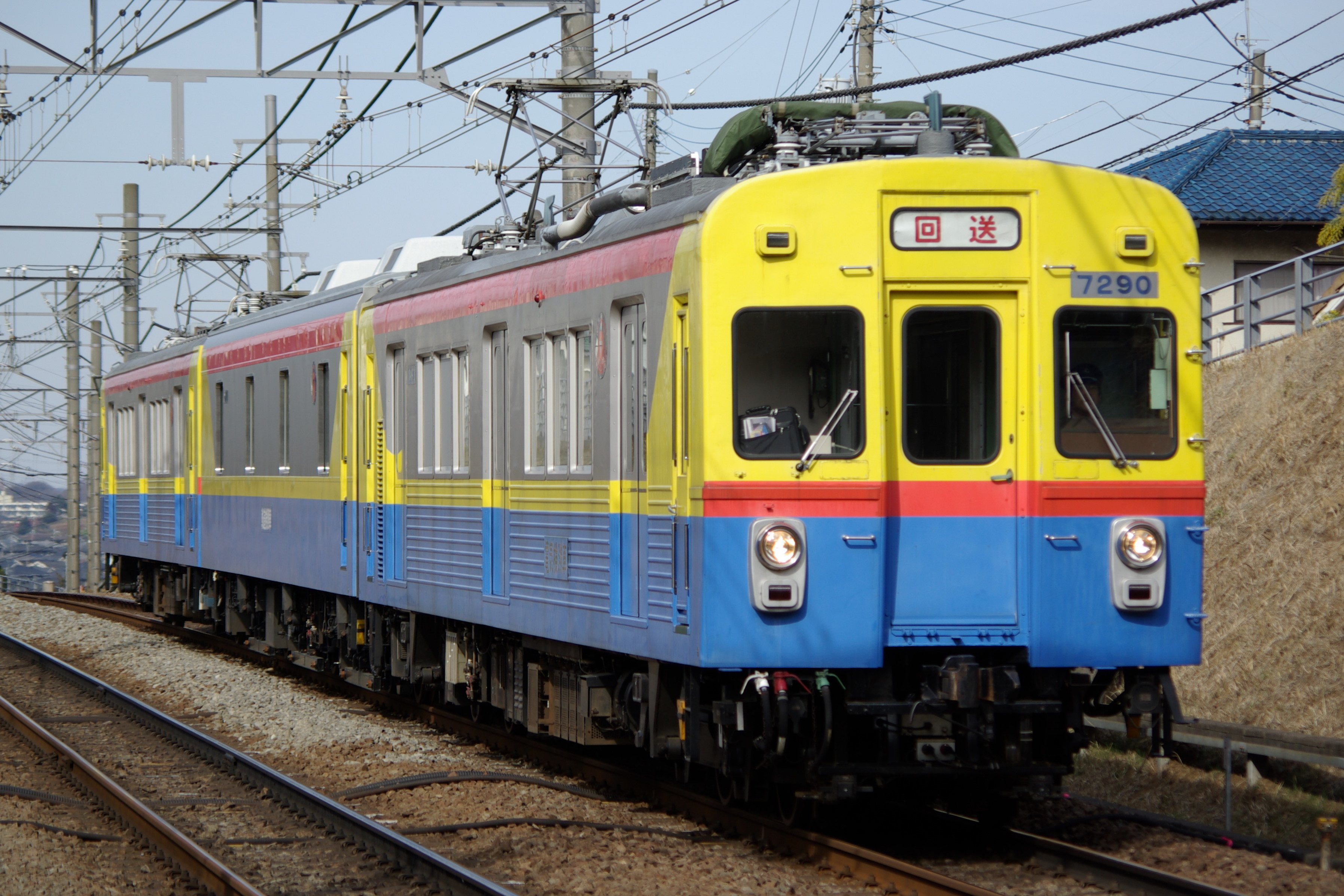 Description（説明）: Tokyu Electric Railway type 7200 Sogokensokusha（東急7200系 総合検測車） Source（出典）: Tokyu Den-en-toshi line Tsukushino Station（東急田園都市線 つくし野駅） Photographer/Painter（制作者）: yaguchi（矢口） Date（製作日）: 2007-02-25